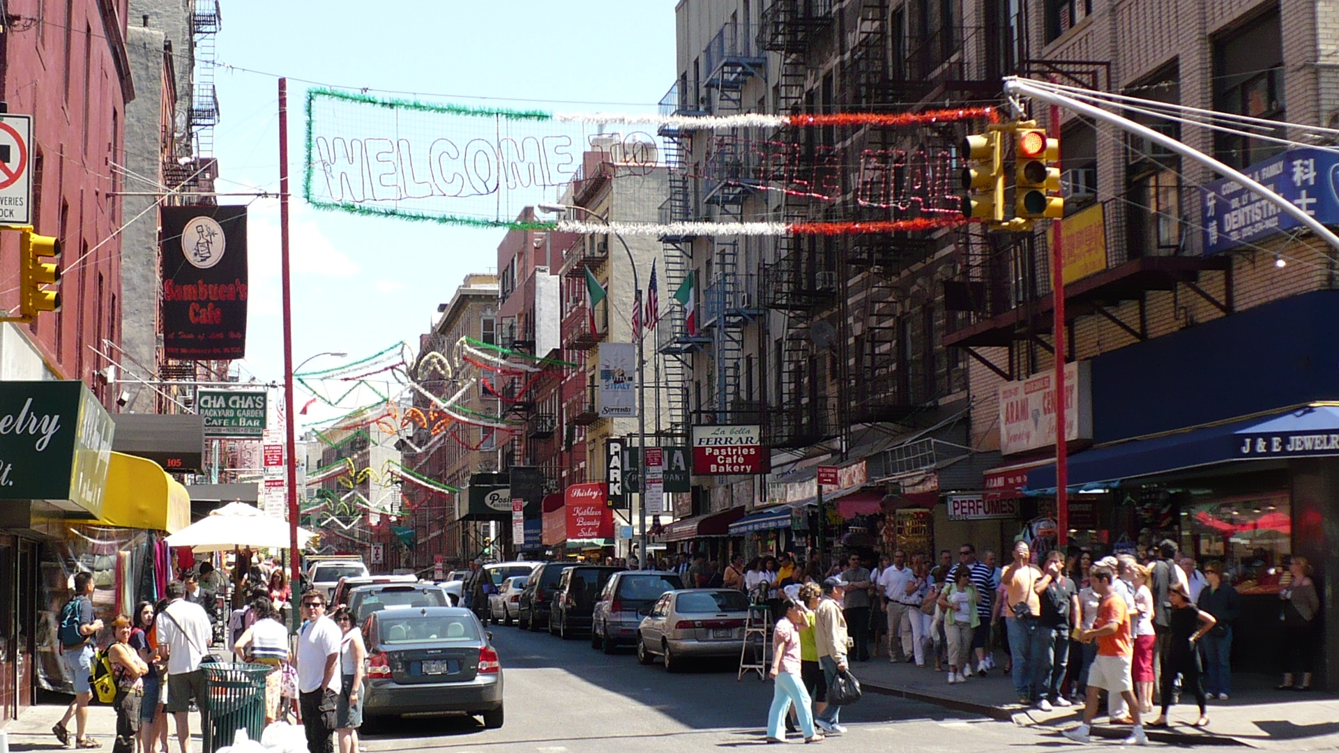 Little Italy, New York City